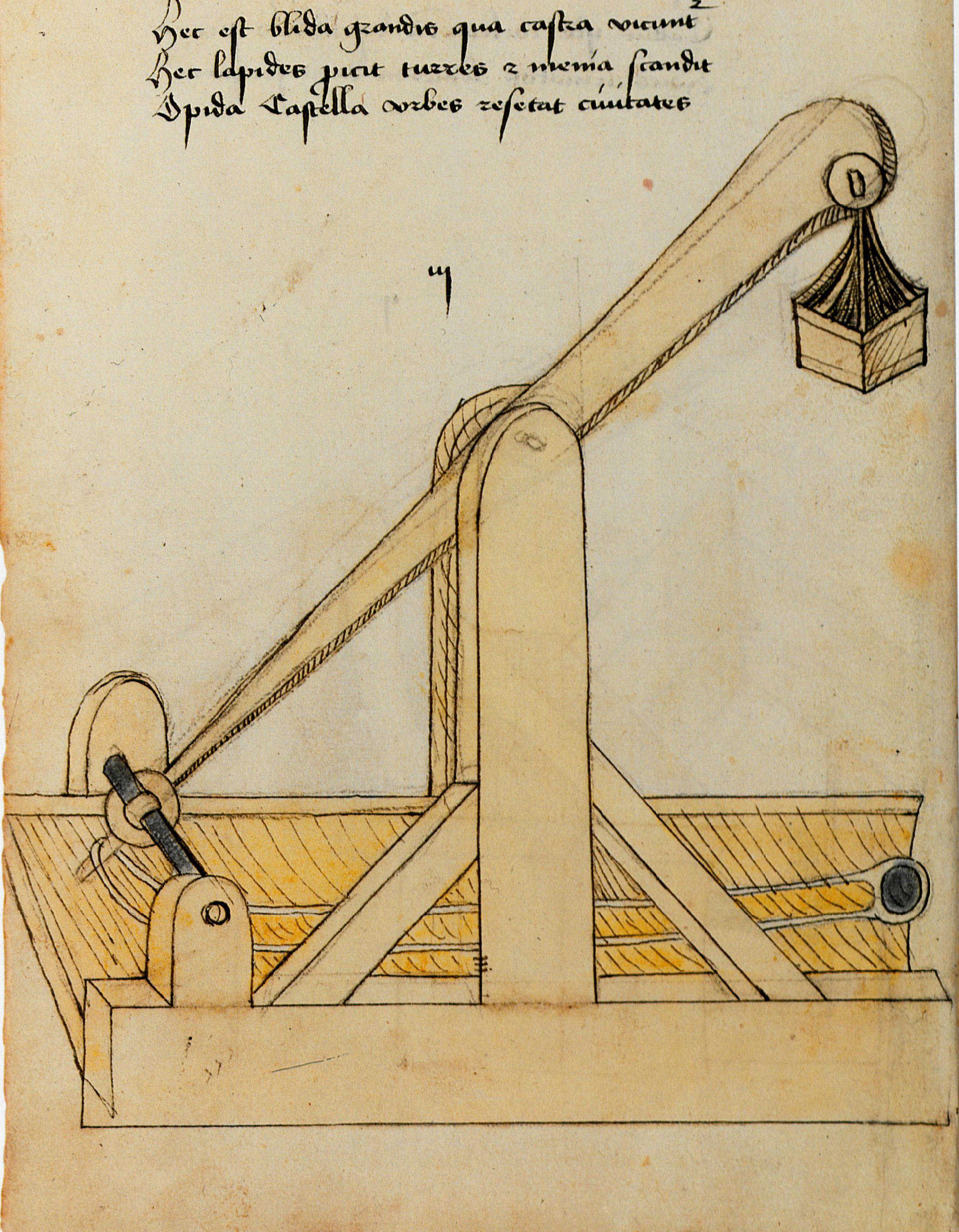 Trebuchet